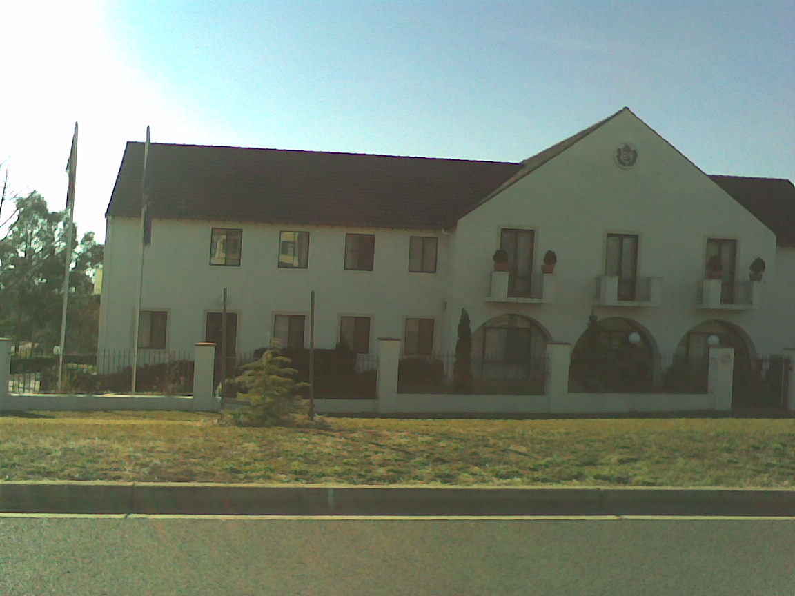 Embassy of Hungary in Canberra, Australia